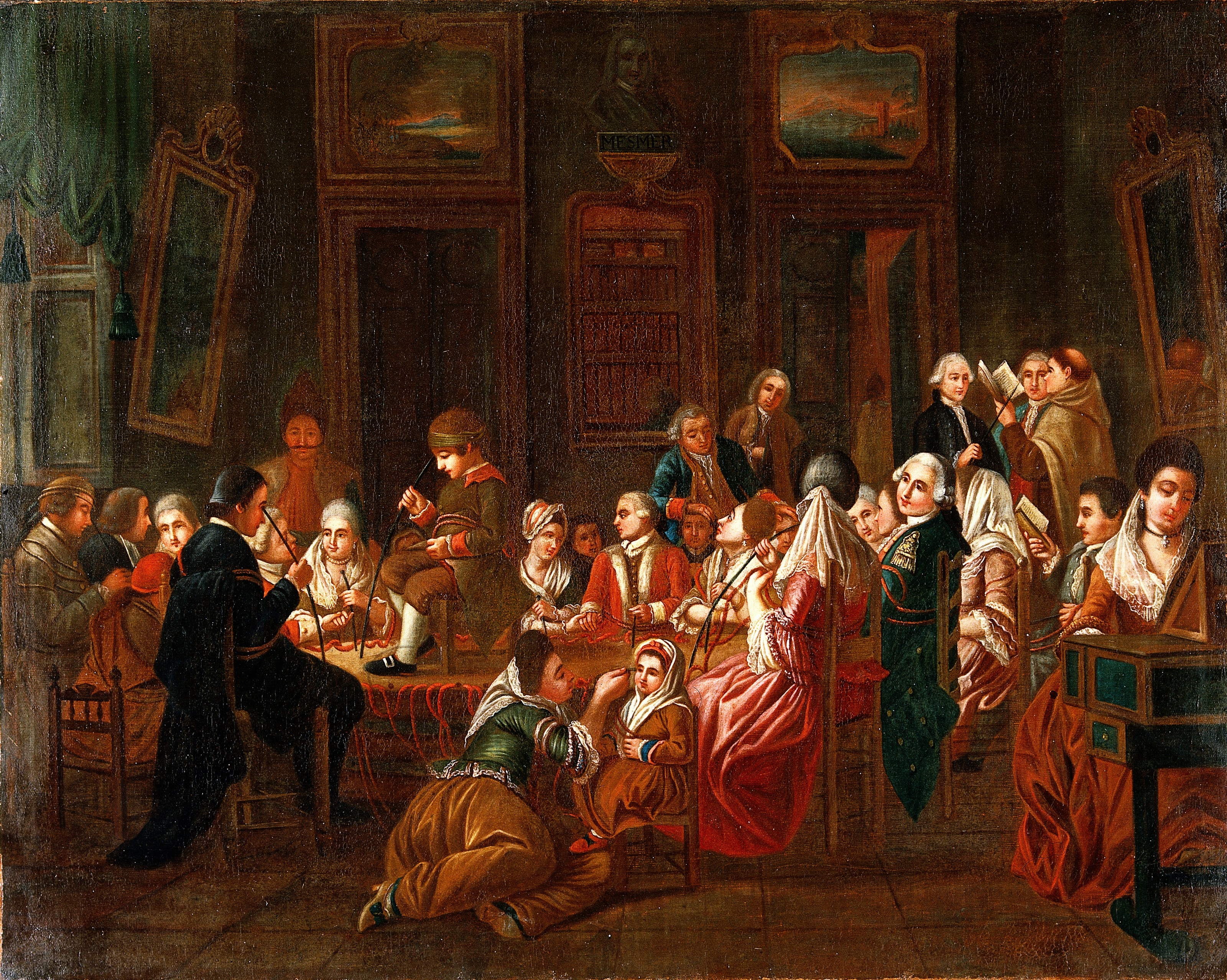 Mesmeric therapy. A group of mesmerised French patients Iconographic Collections Keywords: Maria Theresia von Paradis; Franz Anton Mesmer; Claude-Louis Desrais; Mesmerism; Quackery